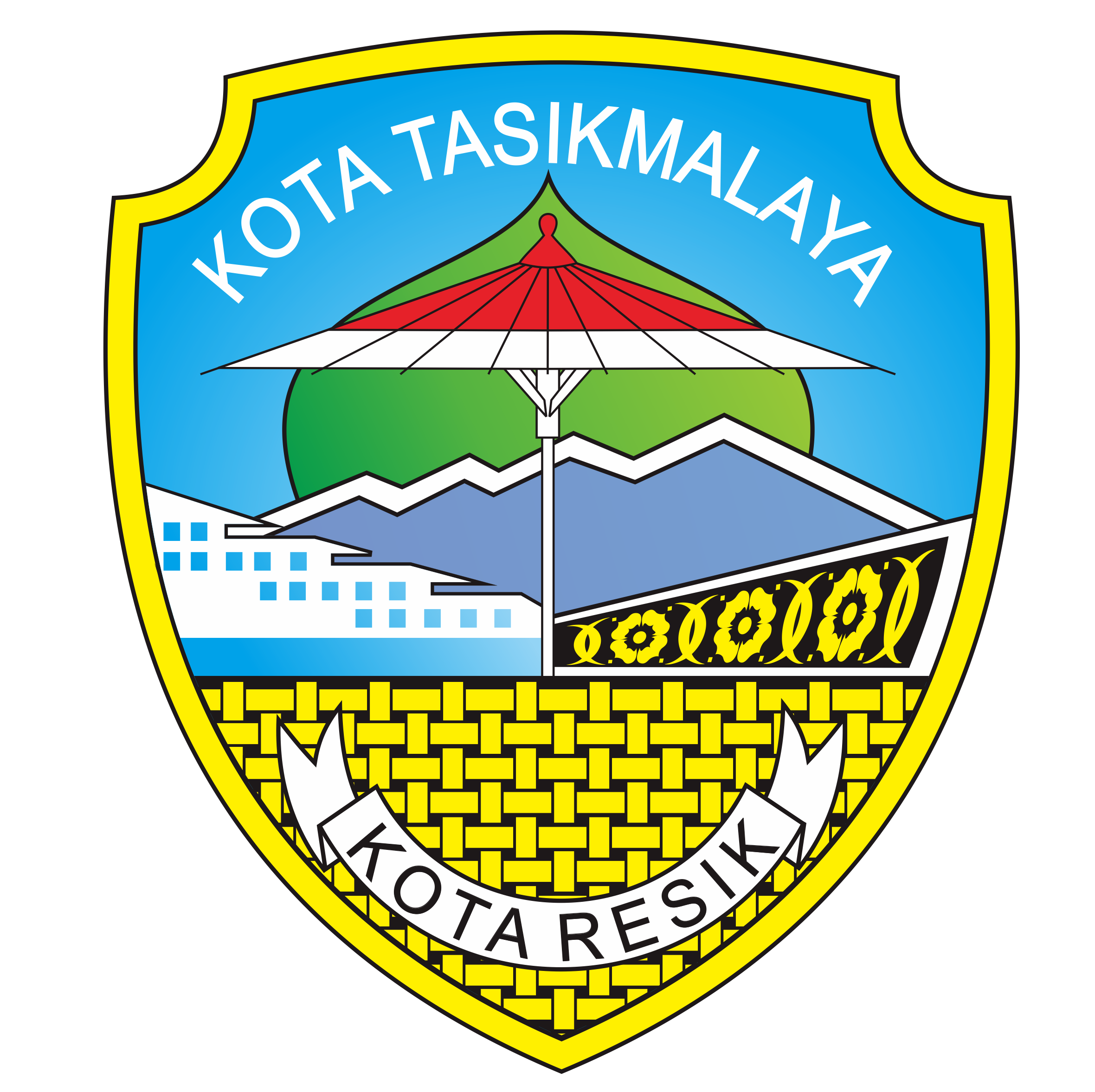 Licensing This file is in the public domain in Indonesia, because it is published and distributed by the Government of Republic of Indonesia, according to Article 43 of Law 28 of 2014 on copyrights. There shall be no infringement of Copyright for: Publication, Distribution, Communication, and/or Reproduction of State emblems and national anthem in accordance with their original nature; Any Publication, Distribution, Communication, and/or Reproduction executed by or on behalf of the government, unless stated to be protected by laws and regulations, a statement to such Works, or when Publication, Distribution, Communication, and/or Reproduction to such Works are made; Reproduction, Publication, and/or Distribution of Portraits of the President, Vice President, former Presidents, former Vice Presidents, National Heroes, heads of State institutions, heads of ministries/nonministerial government agencies, and/or the heads of regions by taking into account the dignity and appropriateness in accordance with the provisions of laws and regulations